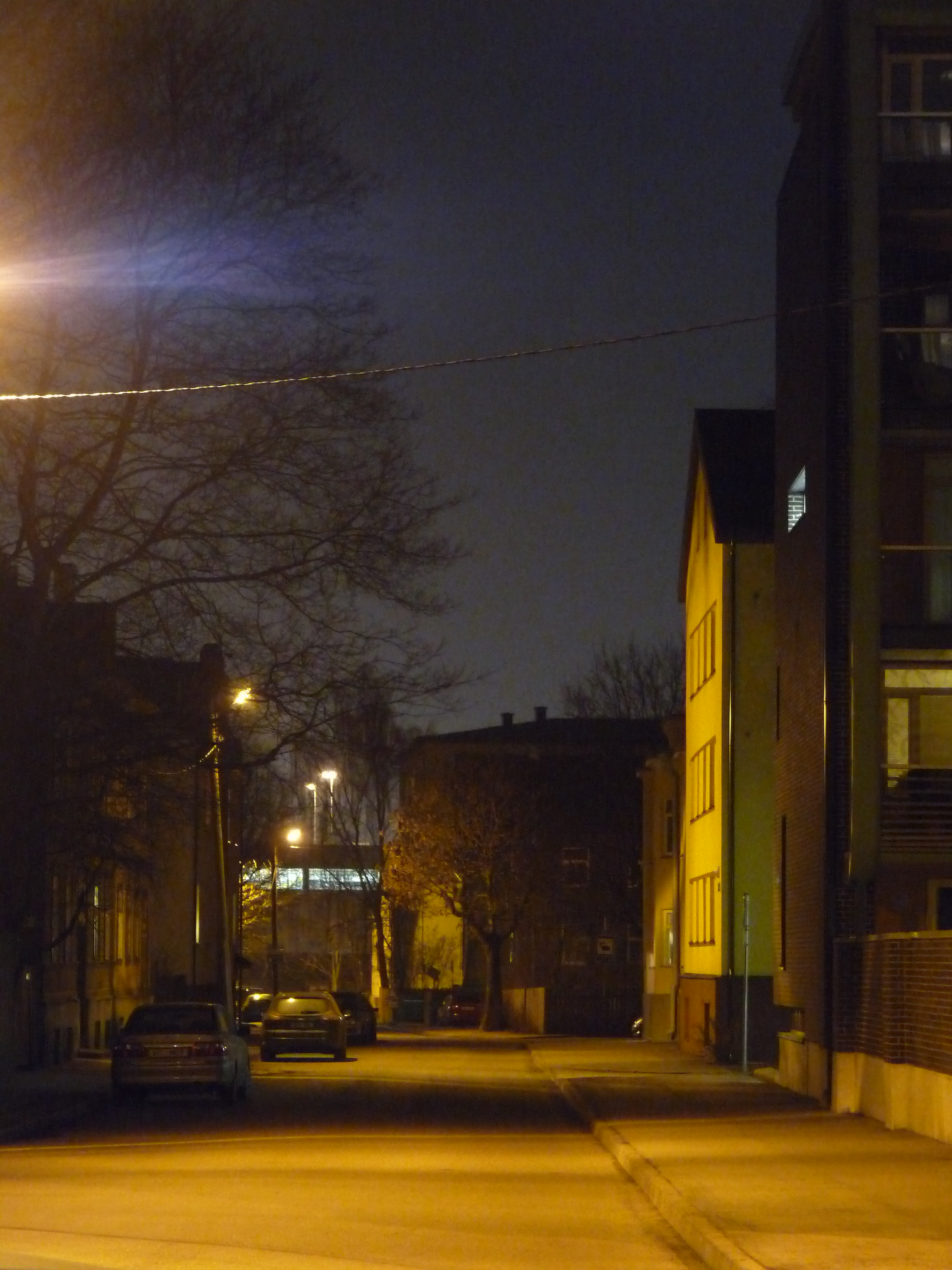 Komeedi street in TallinnTallinn, Estonia